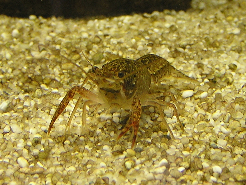 “Marmorkrebs” (juvenile), a small crayfish